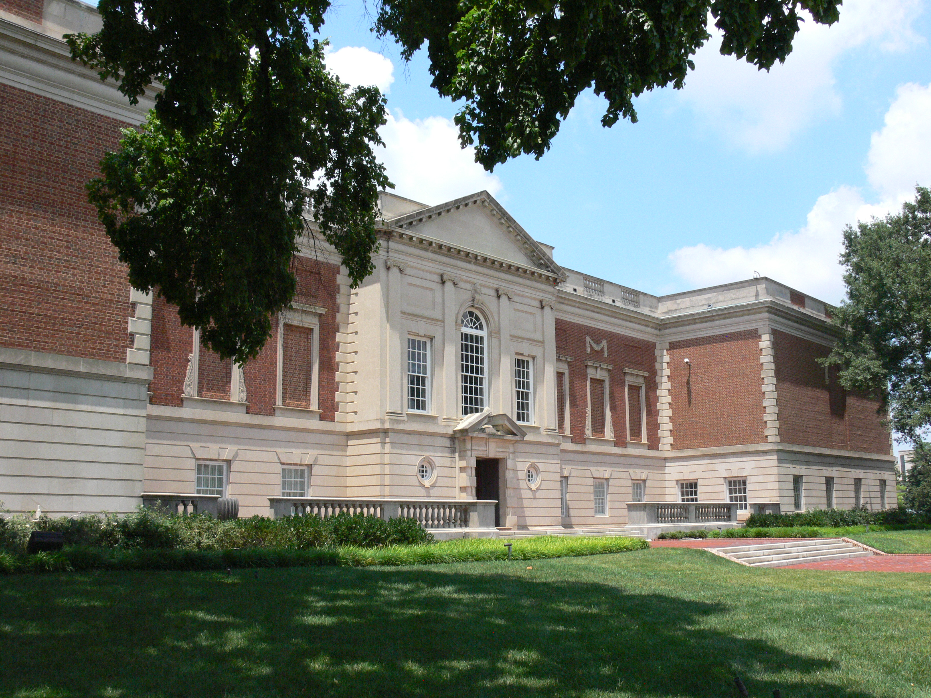 Photograph of the original main entrance of the Virginia Museum of Fine Arts in Richmond, Virginia (now a secondary entrance). From left to right: the 1970 wing, the 1936 wing, and the 1955 wing.